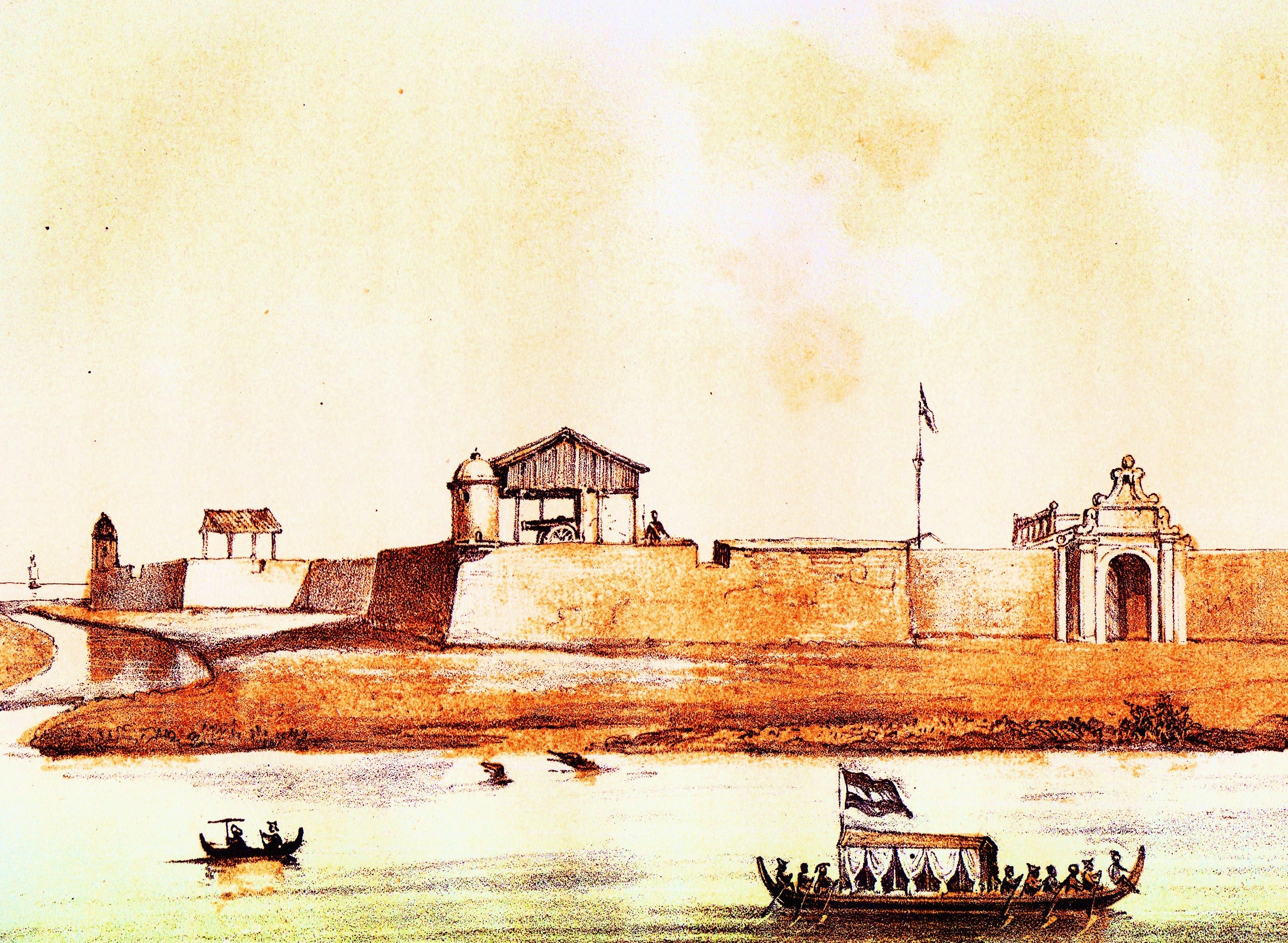 Fort te Tabanio